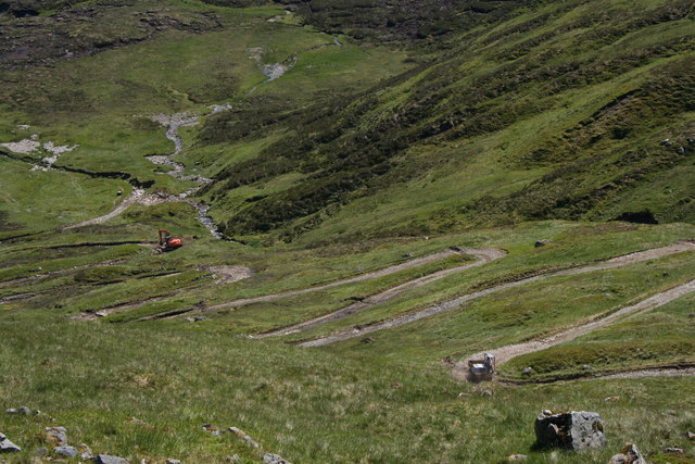 Zig-zags on the Corrieyairck This was quite a feat of eighteenth-century engineering! Unfortunately weather and washouts have taken their toll, and major repairs are required. This view shows where the adjacent stream flooded out onto the lower part of the road, tearing a channel and depositing cobble-sized stones on the moor.